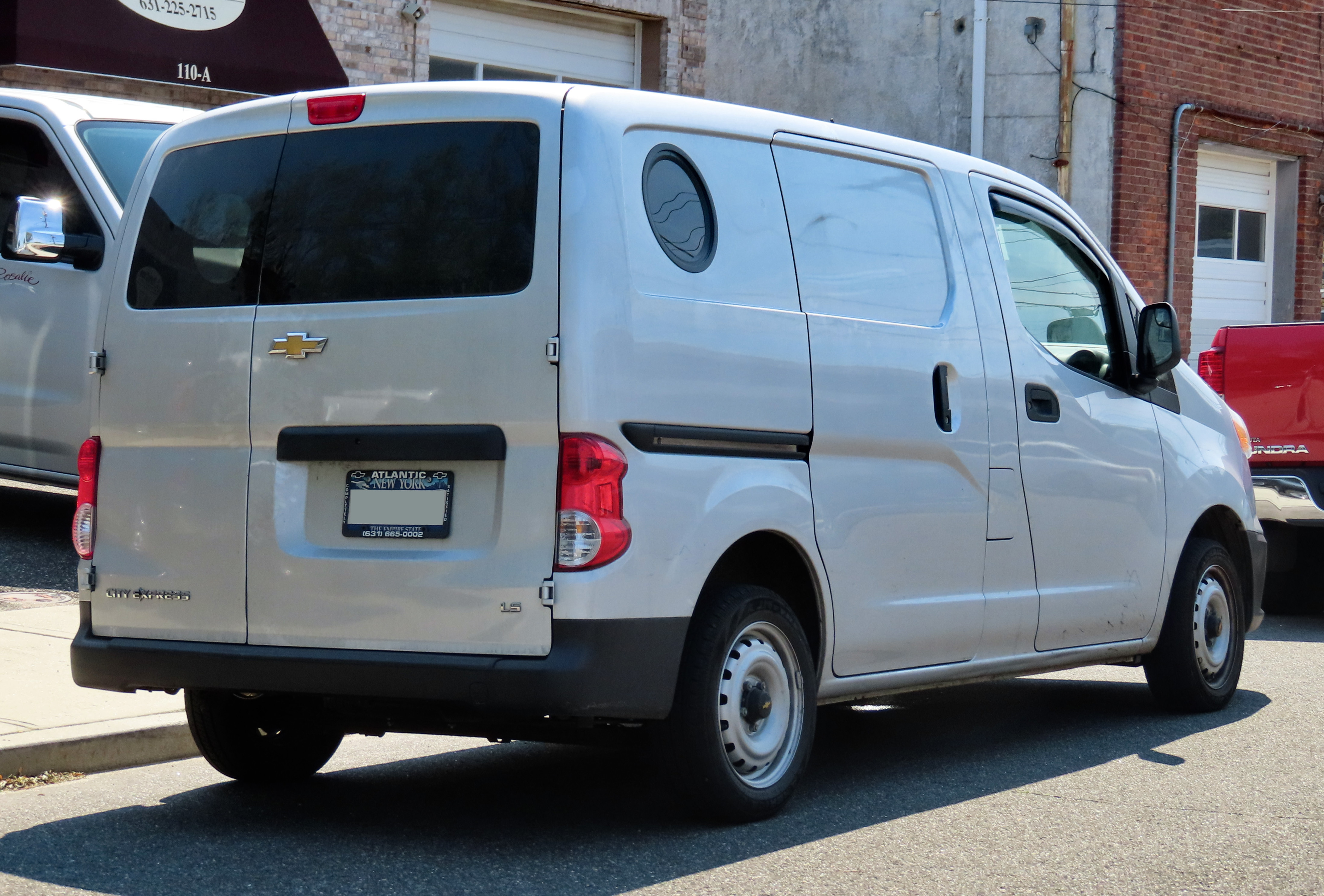 A 2015 Chevrolet City Express LS photographed in Lindenhurst, New York, USA